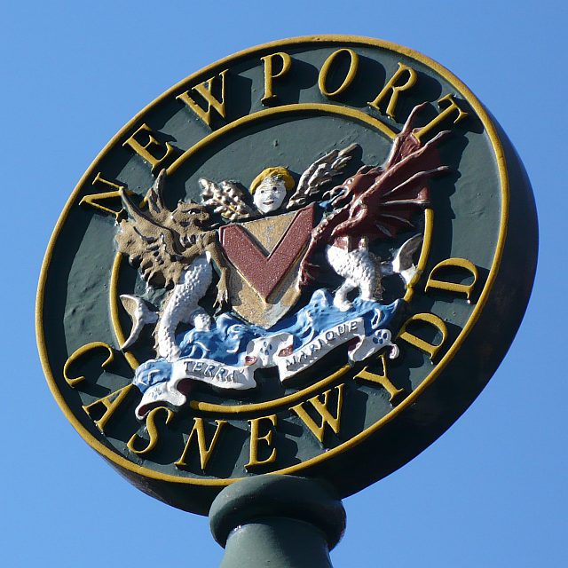 Newport Coat of Arms, Stow Hill. This is on the top of a signpost opposite 707701. A partial version of the coat of arms can be seen here 705327.